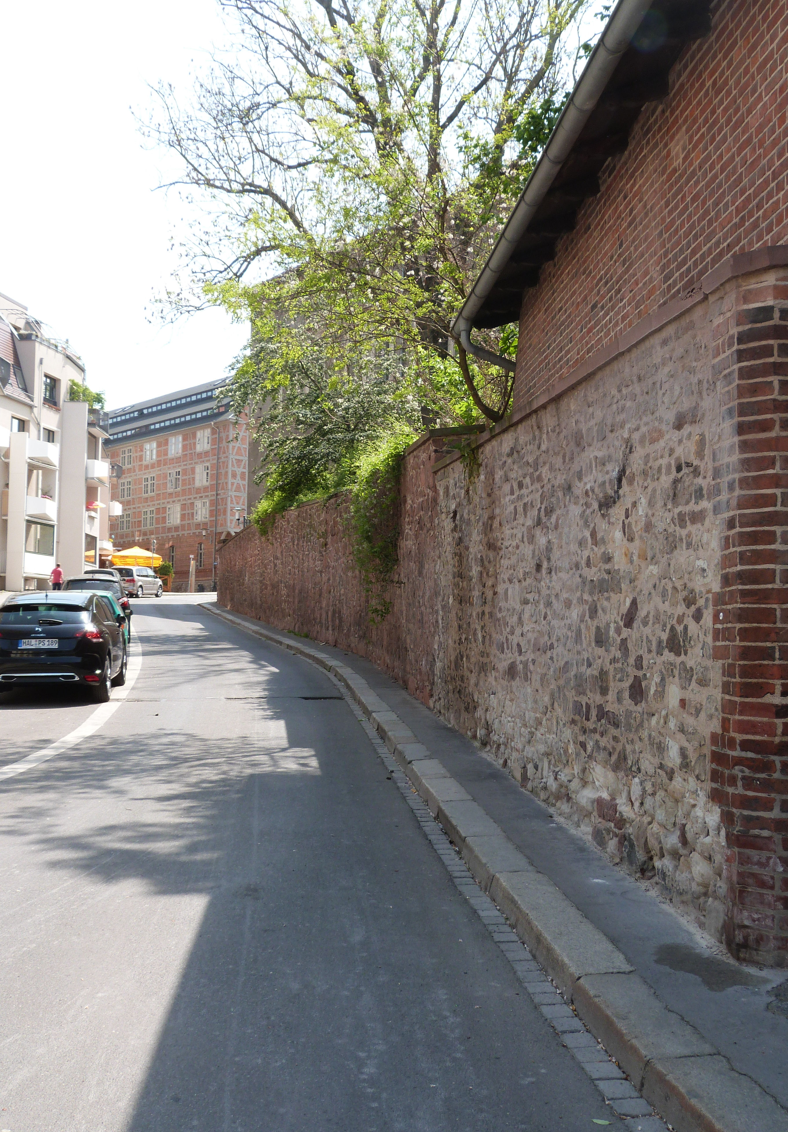 Street Mühlgasse in Halle (Saale)